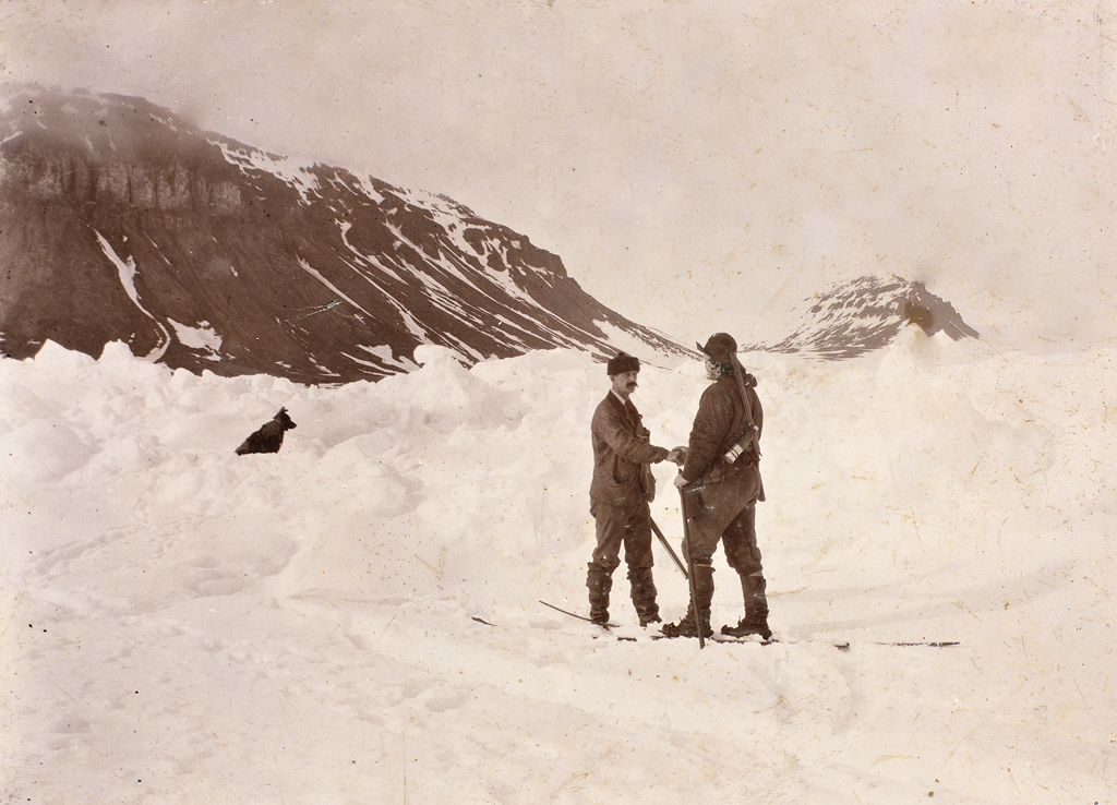 Posed photograph of the meeting between Fridtjof Nansen (right) and Frederick Jackson at Cape Flora, Franz Josef Land, 17 June 1896